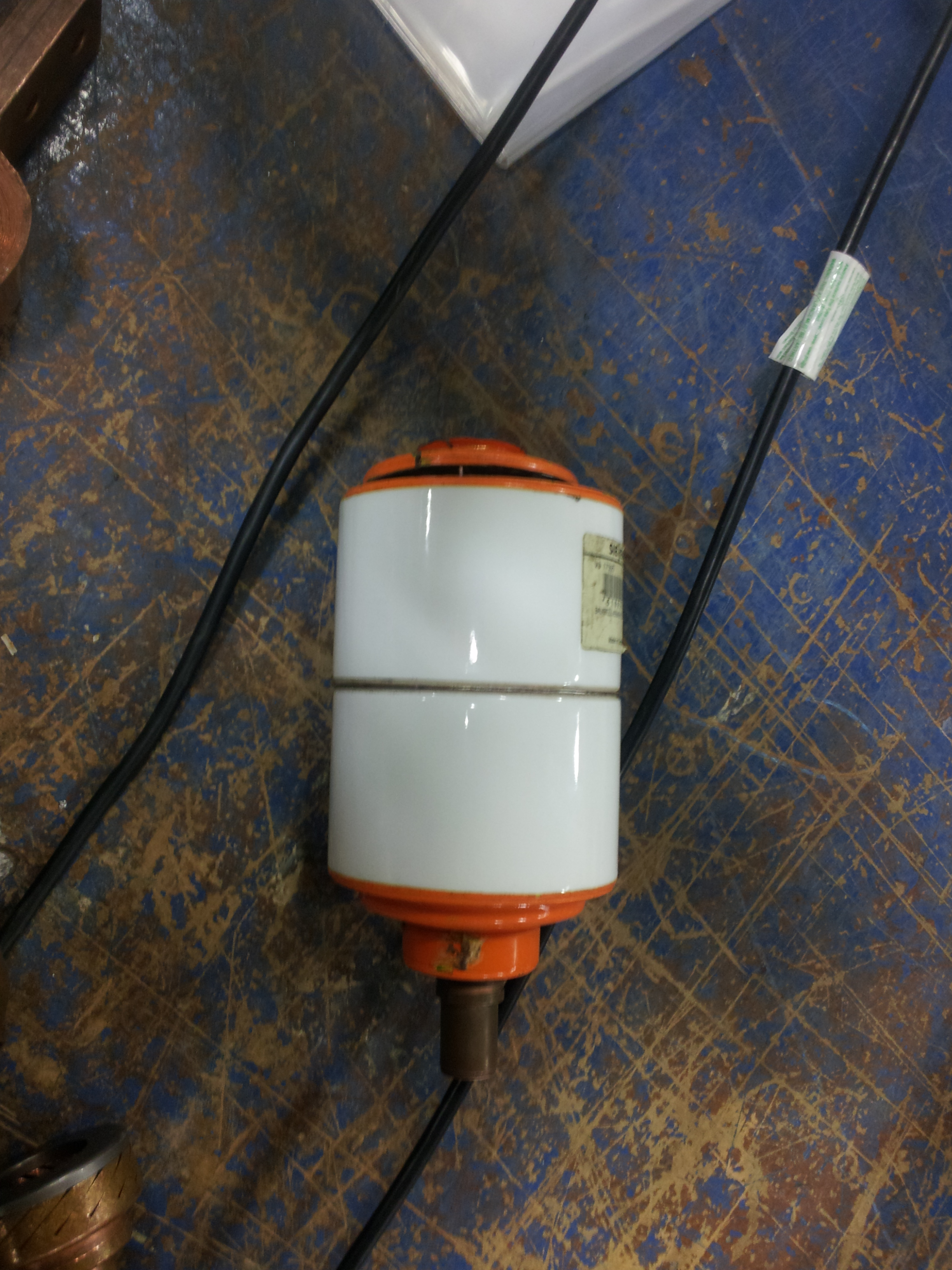 A Siemens ceramic shielded vacuum circuit breaker